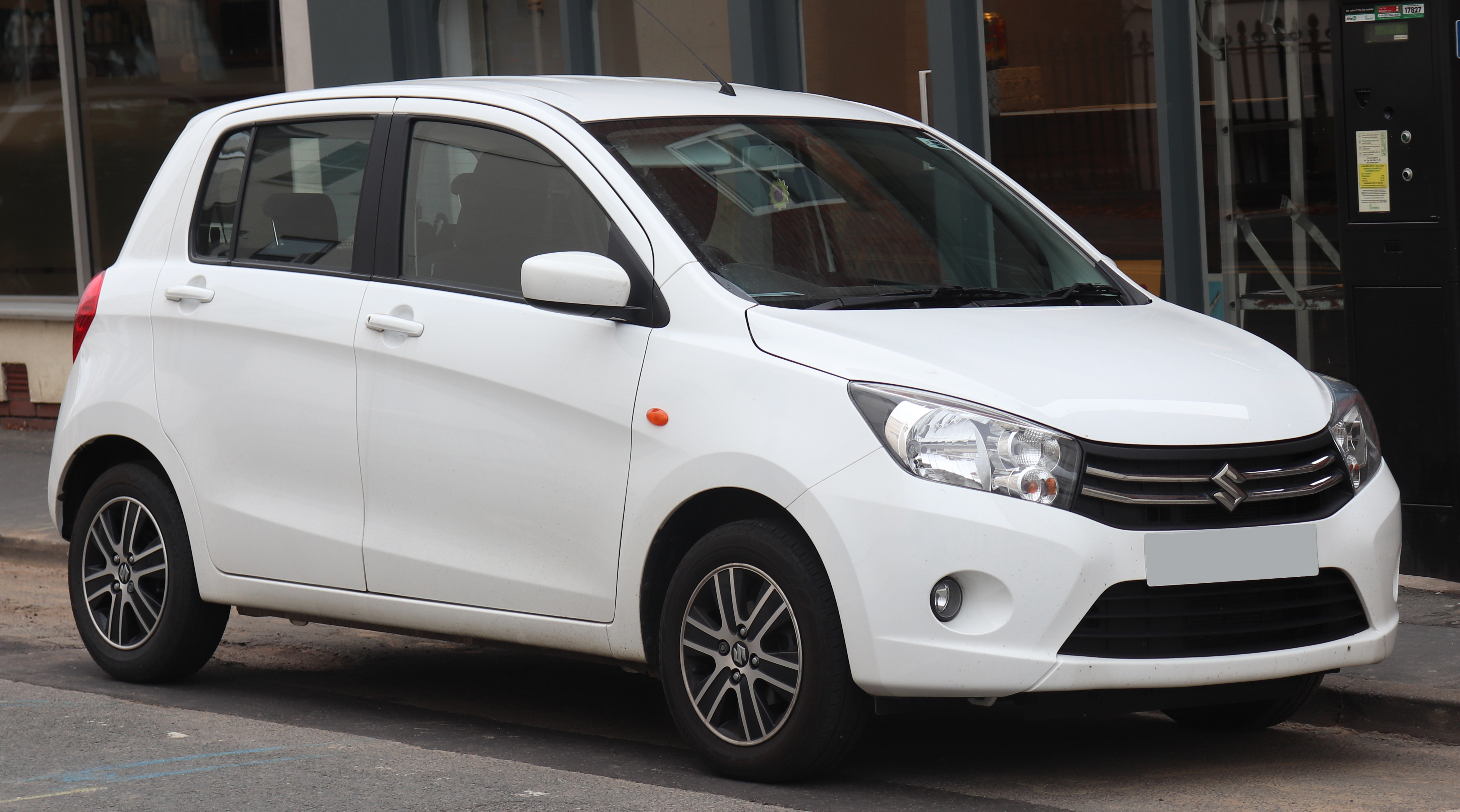 2017 Suzuki Celerio SZ4 Automatic 1.0 Front Taken in Leamington Spa